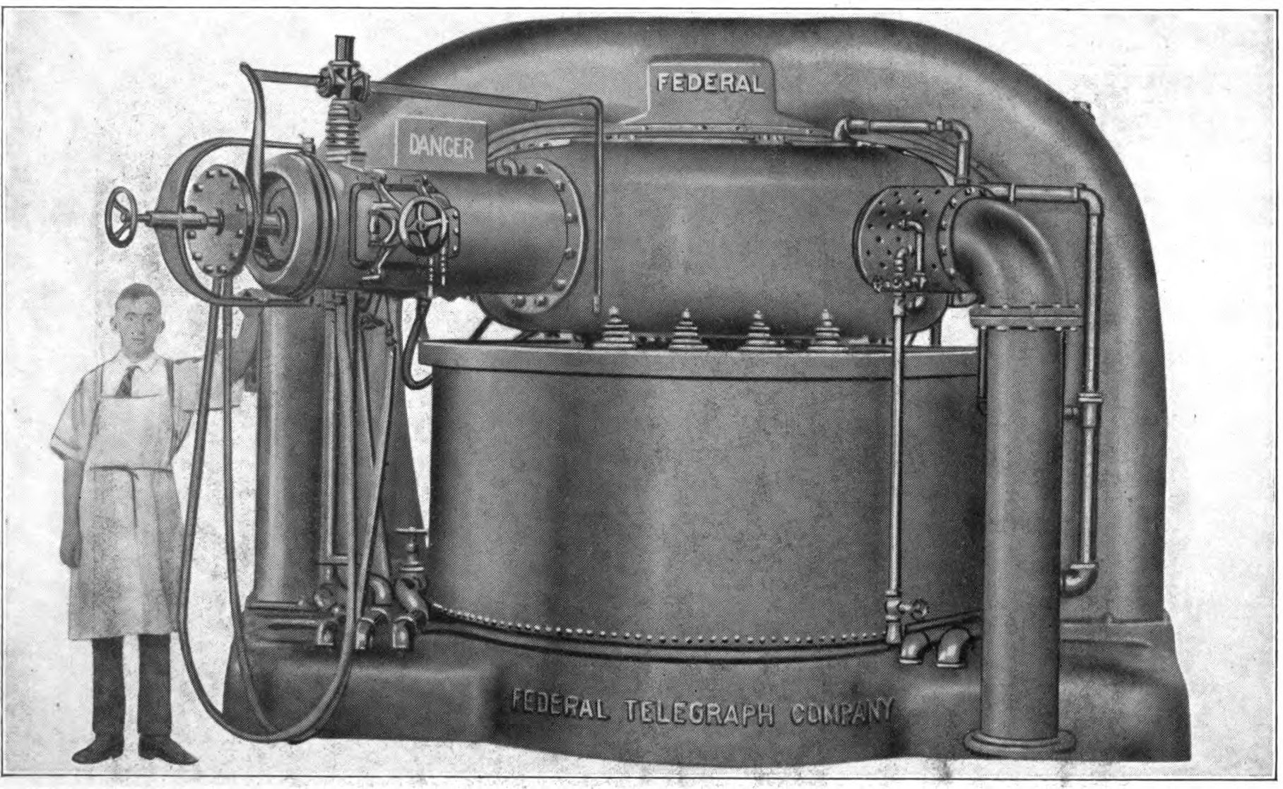 A 1 megawatt Poulsen arc radio transmitter built by the Federal Telegraph Co. in 1919 for a US Navy radio station in Croix d'Hins, Bordeaux, France. This unit, which could broadcast continuously at a power of 500 kW and for a short time at a power of 1 MW, was one of the largest arc transmitters ever built. Arc converters similar to this, with slightly lower power of 500 kW, were used in US naval radio stations in Annapolis, San Diego, Pearl Harbor, and Cavite, Phillipines to provide worldwide contact with the US fleet. The Poulsen arc converter, invented in 1903 by Valdemar Poulsen was one of the earliest continuous wave radio transmitters and one of the first that could transmit AM (voice). It was a short-lived technology which was used from 1903 until the mid-1920s when it was replaced by much cheaper and less bulky vacuum tube transmitters. The device consisted of two horizontal arc electrodes, a water-cooled copper anode (visible at left) and a carbon cathode (behind unit) in a chamber of hydrogen gas (center), between the poles of a powerful electromagnet. A tuned circuit consisting of a coil and capacitor was connected to the electrodes. When a DC voltage was applied to create an arc, radio frequency oscillations were generated, which were applied to the antenna. The transmitter operated in the very low frequency (VLF) range and had a range of thousands of miles. It was around 46% efficient and could supply an antenna current of 750 A. Information from Ellery W. Stone "The Poulsen Arc", Proc. of the U.S. Naval Institute, Vol. 46, No. 2, July, 1920, p. 1066-1067 .